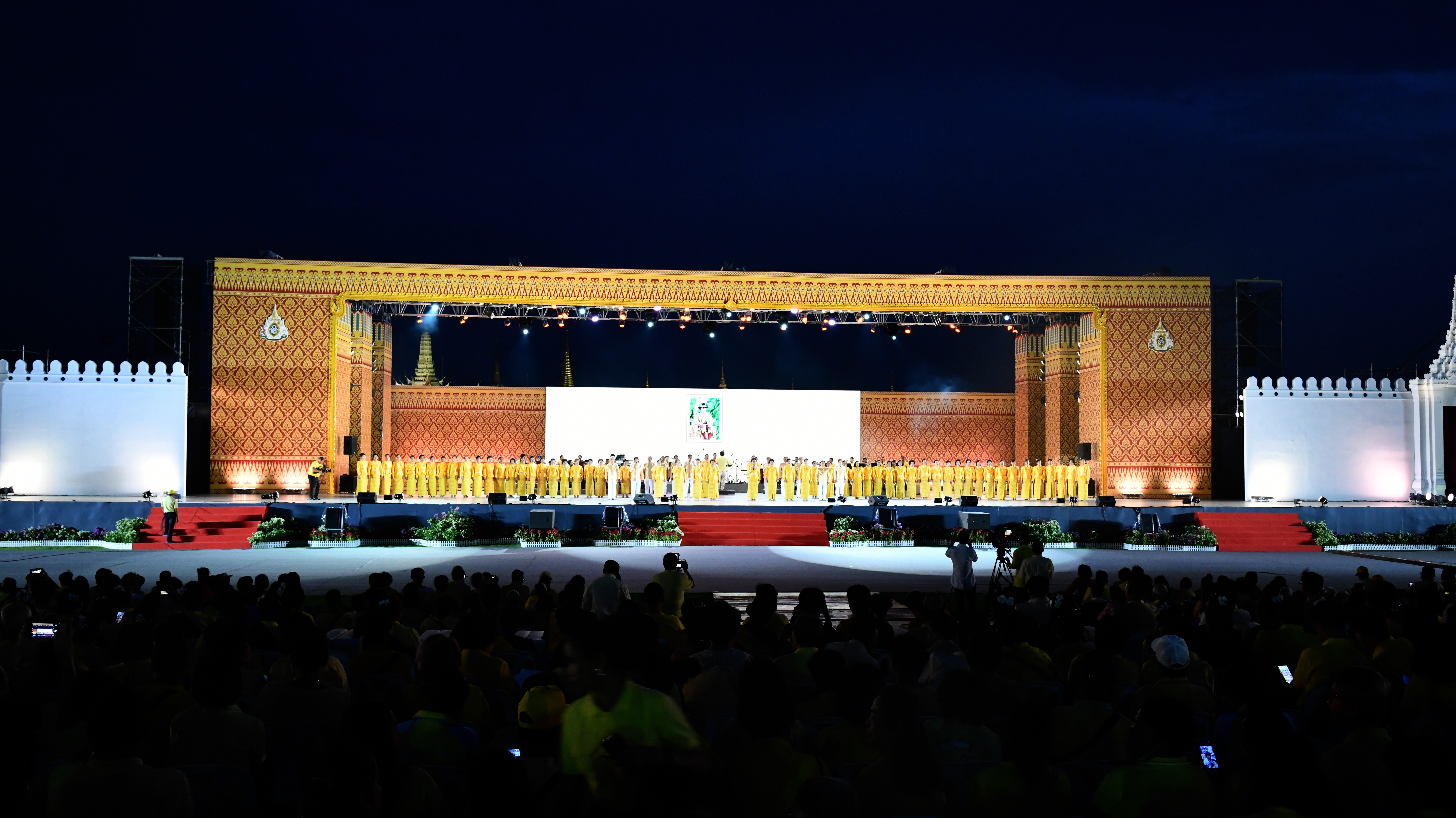 Celebration event for Coronation of King Rama X